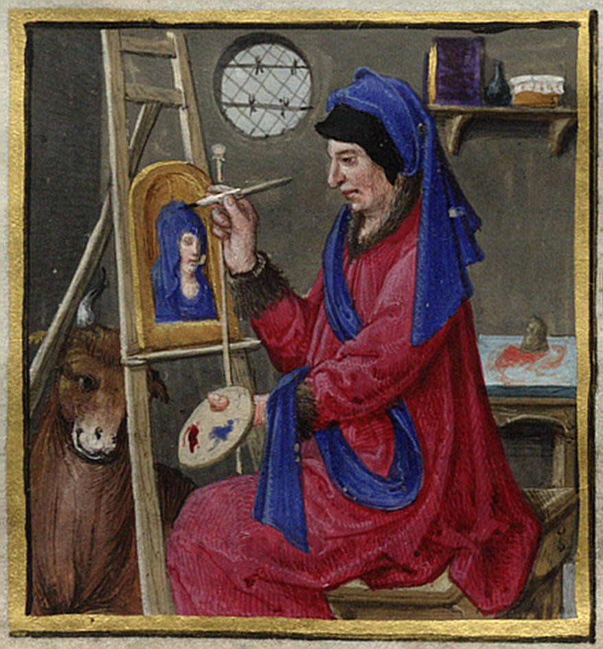 Miniature painting of a portrait artist (saint Luke, recognizable because of the ox, painting the Virgin Mary) with easel